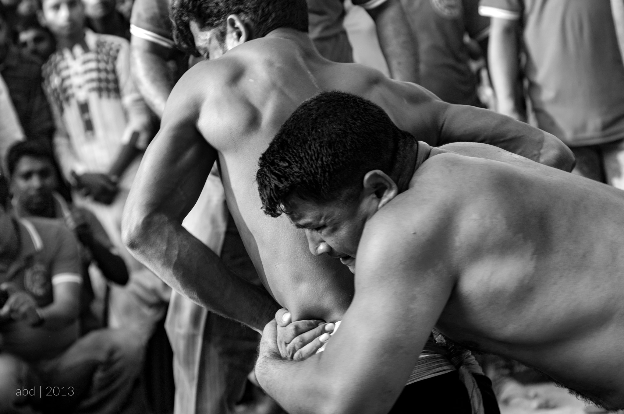 Two "Boli (Wrestler)" fighting in a wrestling match. "Boli Khela" is a local traditional wrestling game played between two "Boli" (wrestler). This event is hold on the first day of the Bengali new year in 14 April at Chittagong city of Bangladesh.